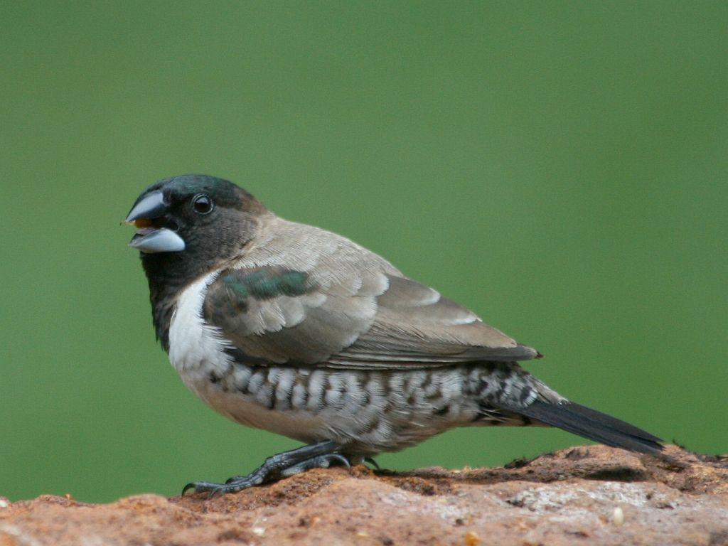 Bronze mannikin Lonchura cucullata subsp. scutata, at Pietermaritzburg, KwaZulu-Natal.